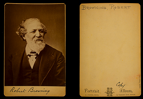 Title: Robert Browning (1812-1889) Item Identifier: 119.1976.2787 (Object Number) Work Type: photograph; cabinet photograph Creator: Hawes, Josiah Johnson (1808 - 1901), American Date: 1866-1889 Dimensions: mount: 15.9 x 10.8 cm (6 1/4 x 4 1/4 in.) Topics: Photographs Nationality/Culture: American Materials/Techniques: Albumen silver print on card